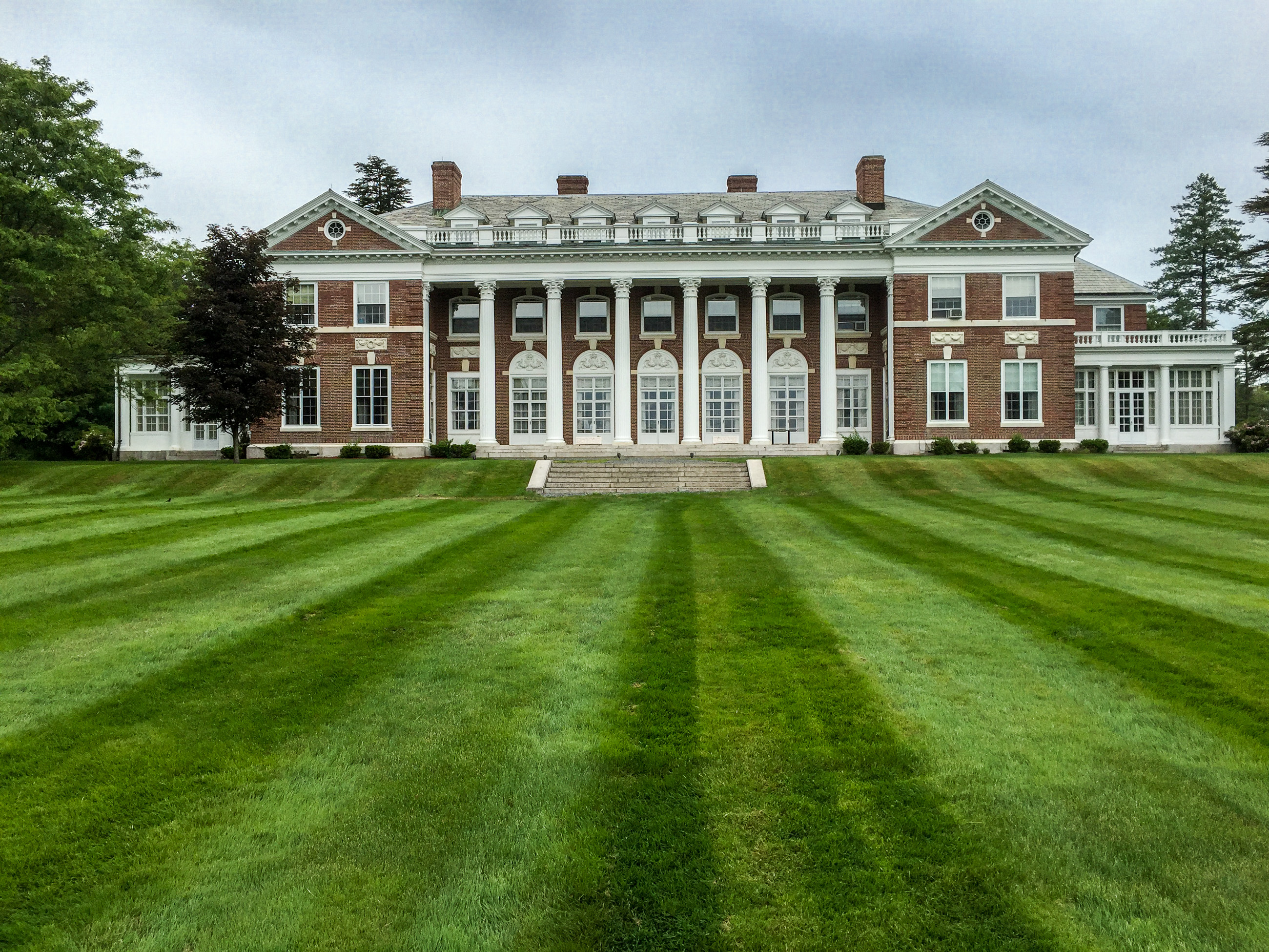 Former estate of Frederick Lothrop Ames, Jr. in North Easton, Constructed in 1905. Became Stonehill College in 1948. The campus includes the estate’s original Georgian-style mansion.